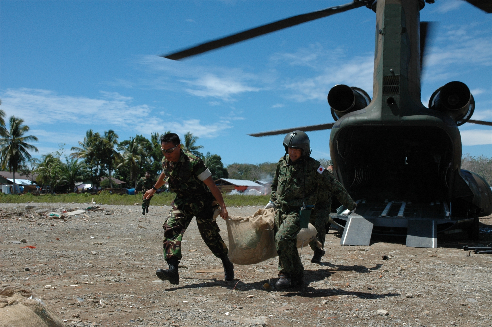 Japan Ground Self-Defense Force International disaster relief activities in Indonesia (2004 Indian Ocean earthquake and tsunami)